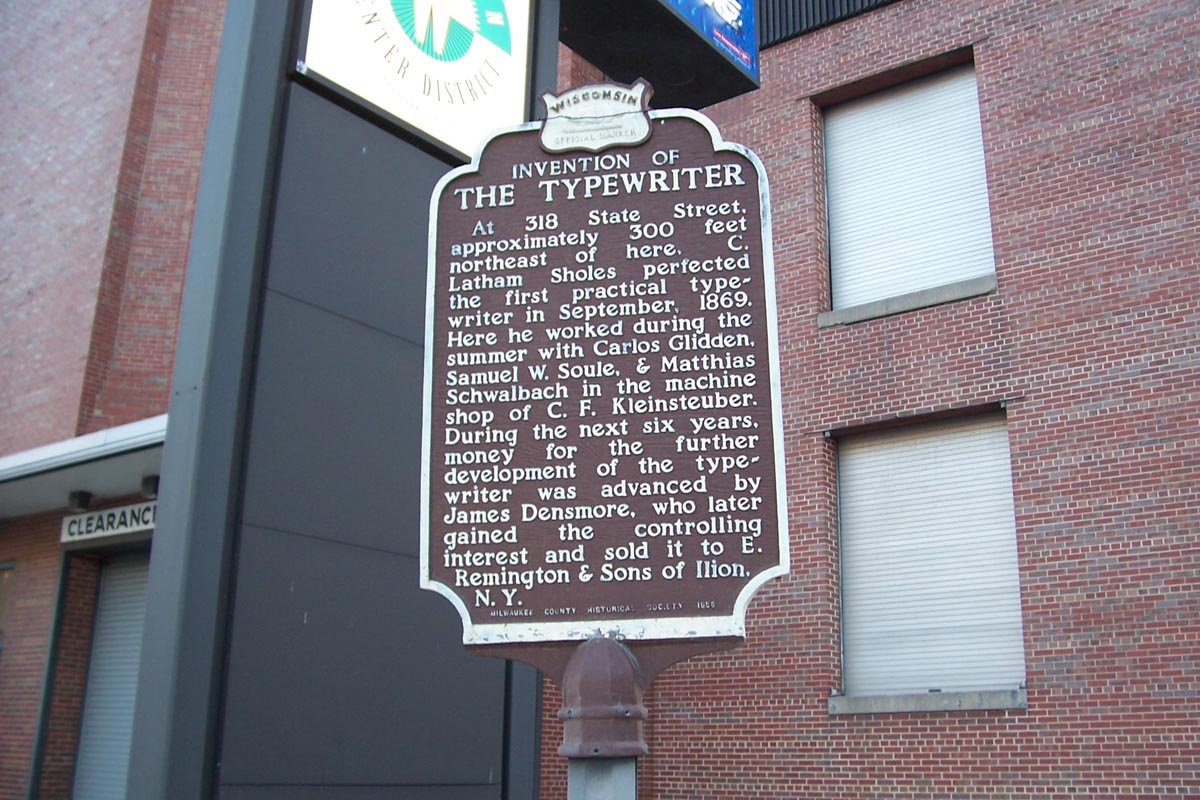 Wisconsin Historical Marker identifying the site in which Christopher Latham Sholes invented the first practical typewriter, at a machine shop located in Milwaukee, Wisconsin.